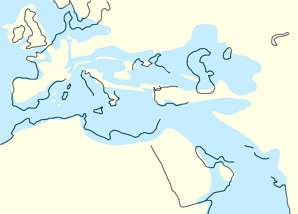 Paleogeography of the Mediterrenean region during the Rupelian age (33.9 - 28.4 million years ago). The Tethys Ocean between Africa and Europe is closing. Paratethys gets separated from Tethys by the formation of the Alps, Carpathians, Dinarides, Taurus and Elburz mountains (all Alpine orogeny). Drawn by the uploader, after studying several sources, most used were: Rögl, F., 1999. Mediterranean and Paratethys. Facts and hypotheses of an Oligocene to Miocene paleogeography (Short Overview). Geologica Carpathica 50 (4), 339– 349. Schulz, H.-M.; Vakarcs, G. & Magyar, I.; 2005: The birth of the Paratethys during the Early Oligocene: From Tethys to an ancient Black Sea analogue?, Global and Planetary Change 49(3-4), p. 163-176.